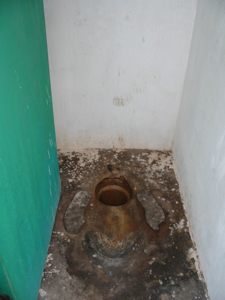 An aqua privy in Lam Tsuen Public School